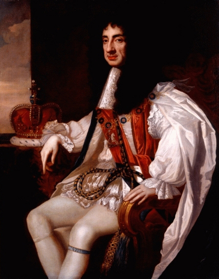 Charles II is portrayed wearing the robes of the Sovereign of the Order of the Garter.